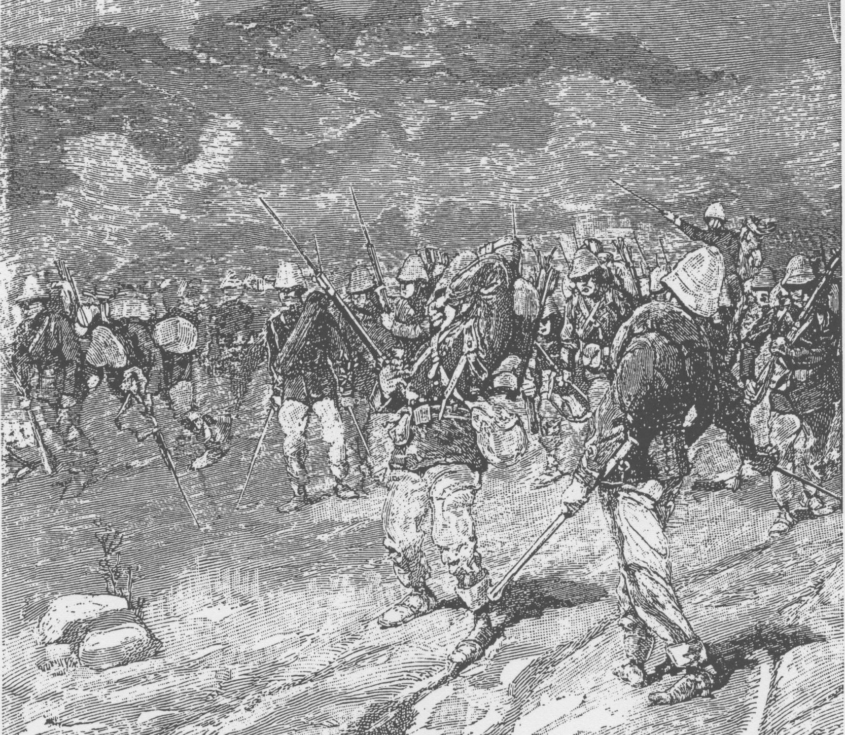 Drawing of attack by Mahias's marine infantry battalion at the battle of Hoa Moc, 2 March 1885